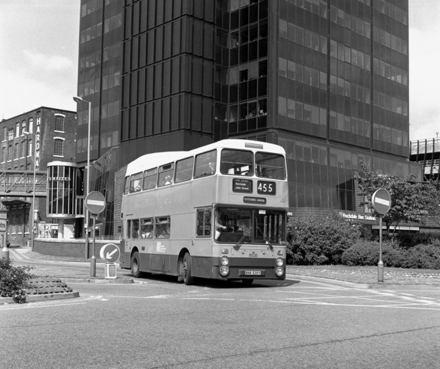 Bus leaving Rochdale Bus Station, and passing the Metropolitan Borough of Rochdale's Municipal Offices. By 1984 local bus services around Rochdale were operated by the Greater Manchester Passenger Transport Executive, a huge organisation that had subsumed all the former municipally-operated services in the metropolitan county of Greater Manchester. The one- and two-digit route numbers which had been familiar for years were all changed to 3-digit numbers. Here is a Route 455 double decker: the destination blind reads PEPPERMINT BRIDGE, a locality in Newhey.